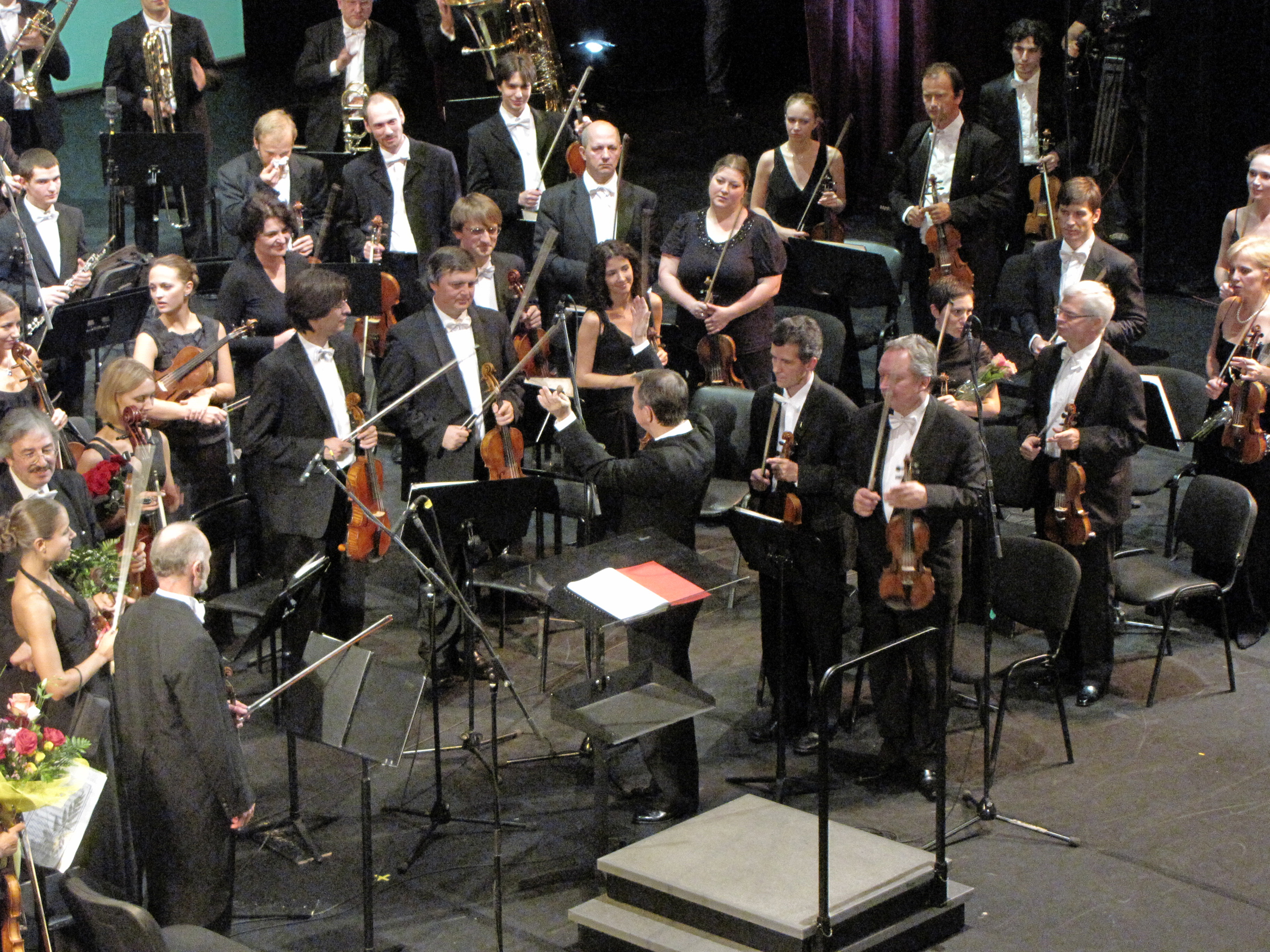 Mikhail Pletnyov and Russian National Orchestra